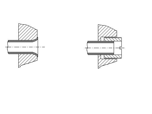 Heat exchanger tube and plate conn LS